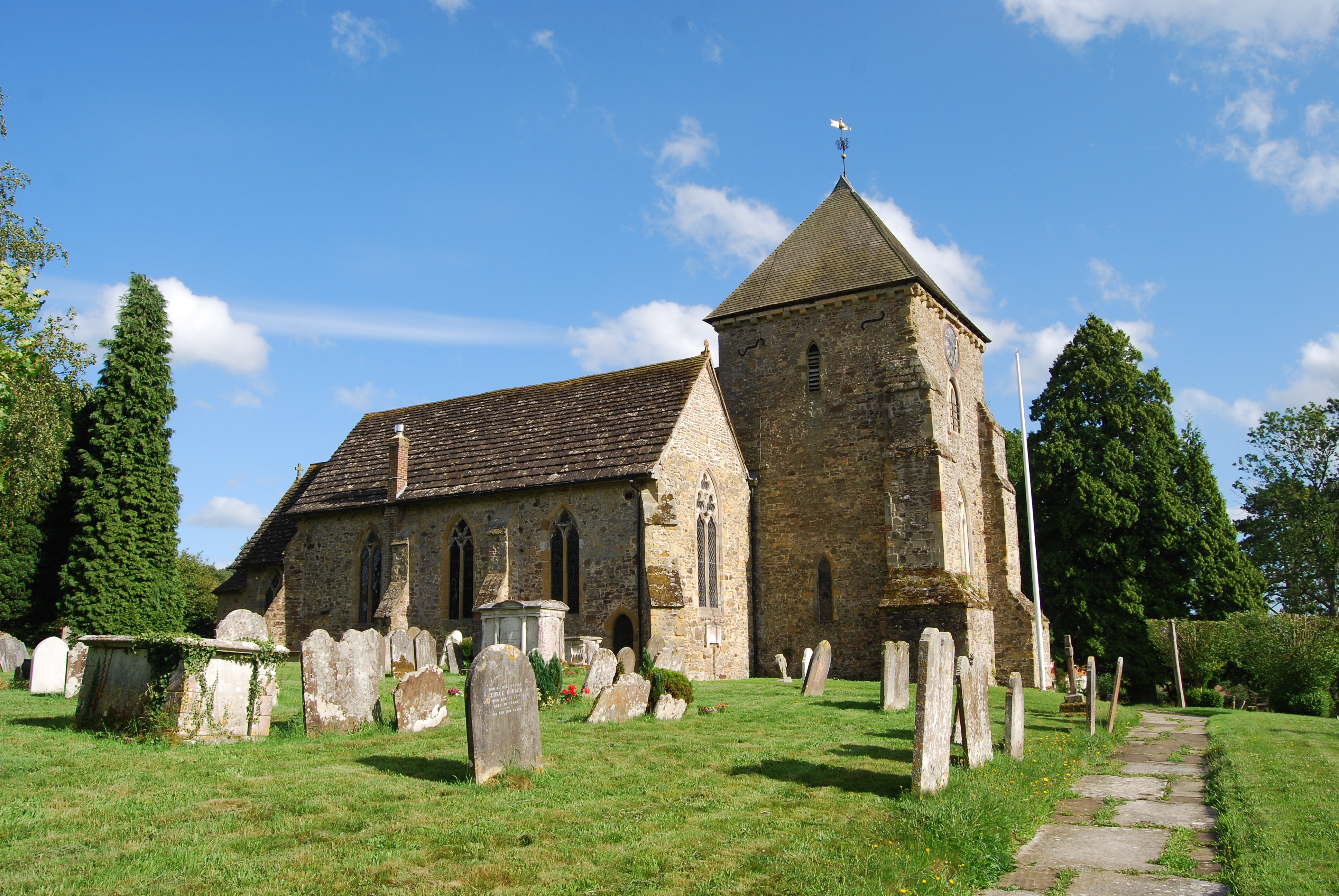 Holy Trinity Church, Rudgwick, West Sussex, England (taken from the North West, July 2011)